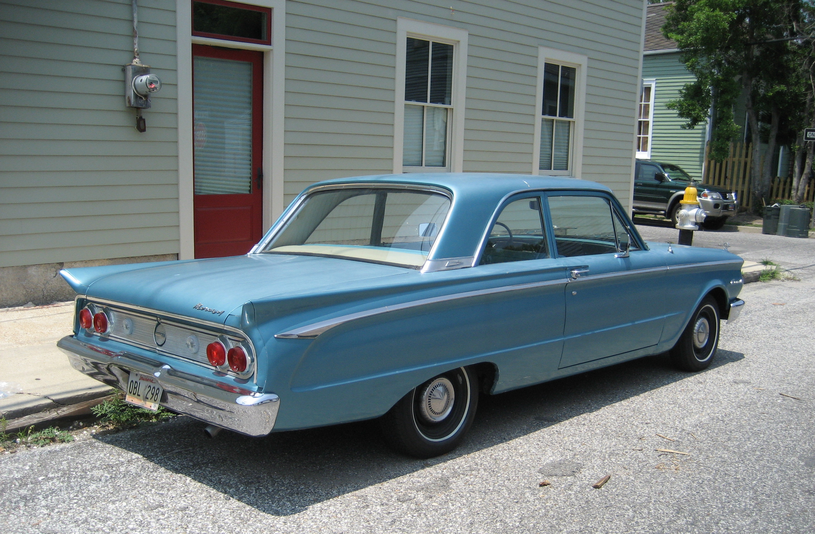 A 1962 Mercury Comet seen parked on street in Uptown New Orleans.